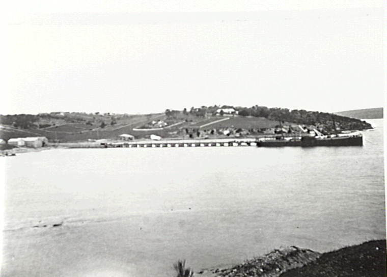 Illawarra Steam Navigation Company's ship Bega at Eden, New South Wales, Australia